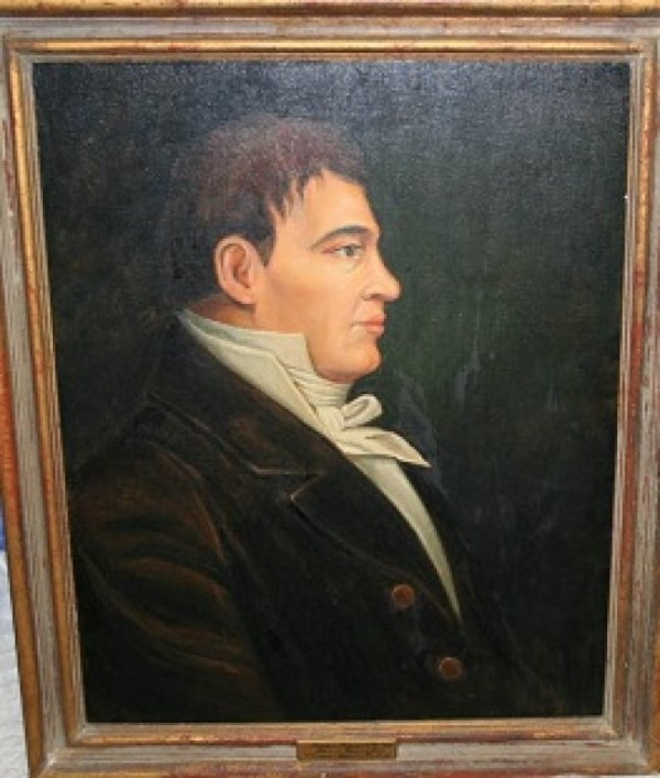 Simon Fraser (1776-1862), of the North West Company